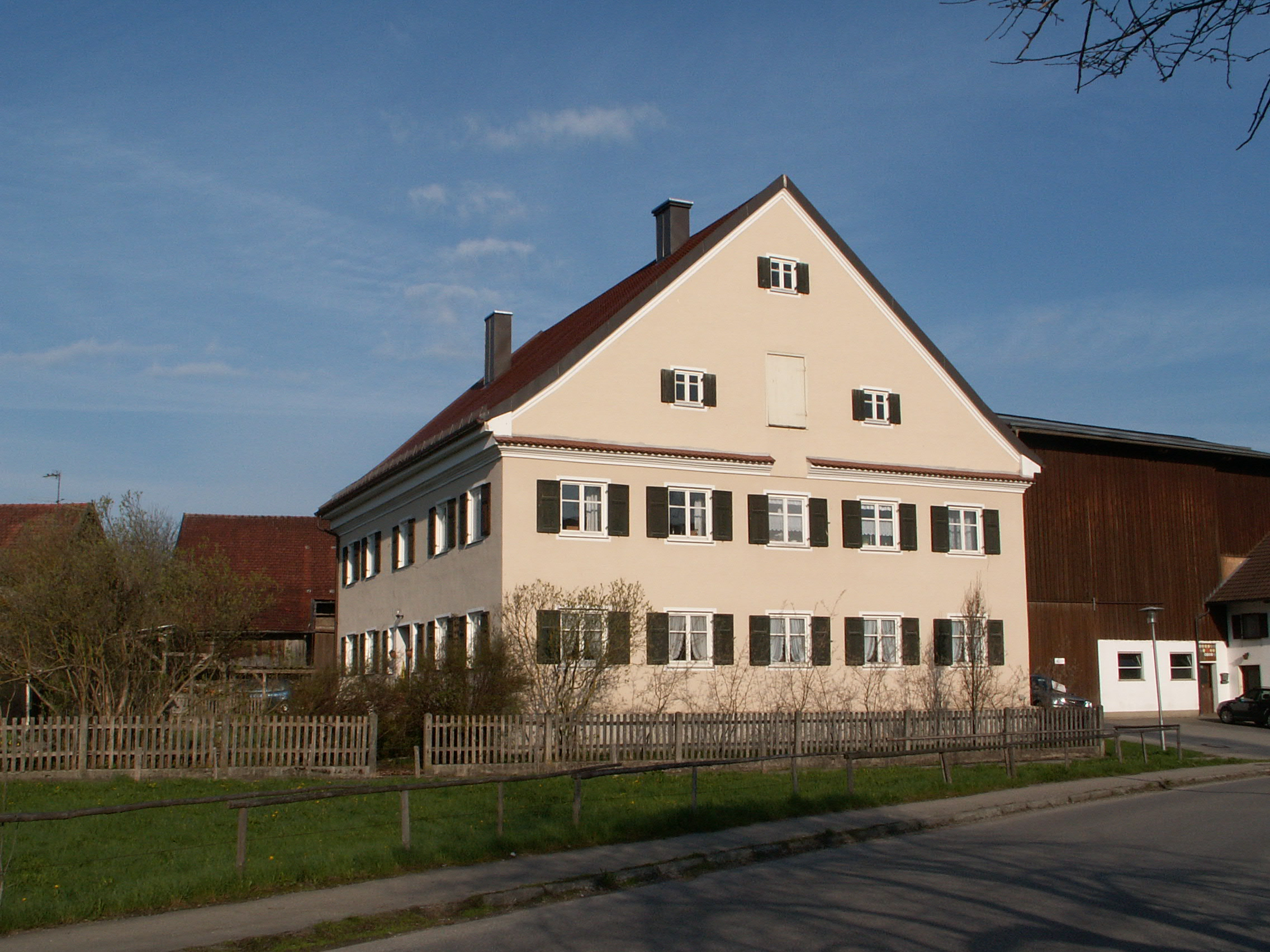 Pfarrhof in Bertoldshofen, Stadt Marktoberdorf